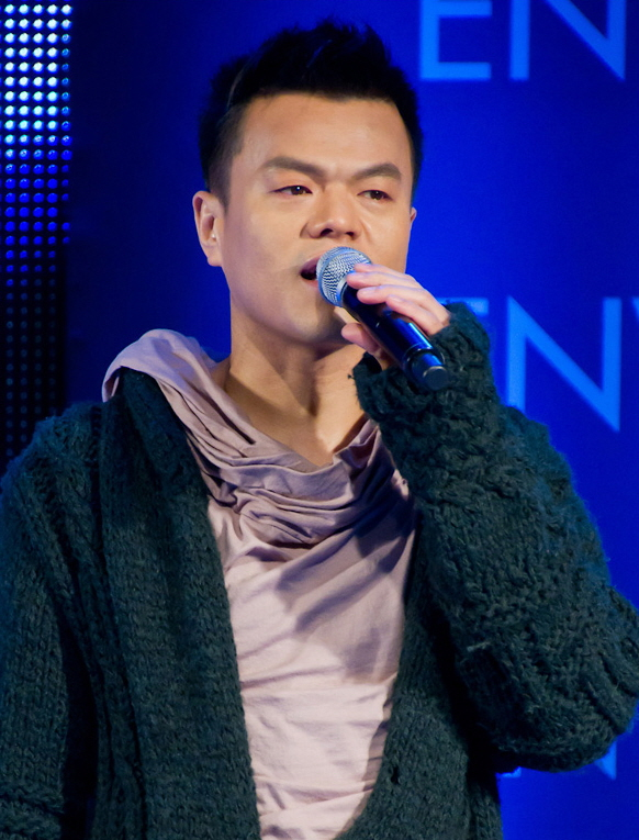 Park Jin-young (Founder of JYP Entertainment) in February 2011